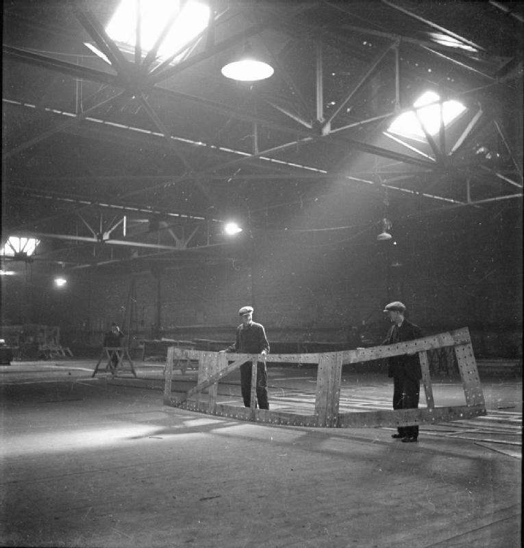 Cecil Beaton Photographs- Tyneside Shipyards, 1943 Two men lifting templates in the mould loft.